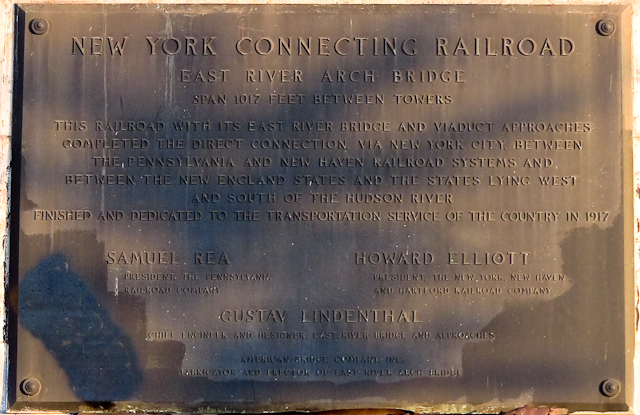 Plaque on the Hell Gate Bridge commemorating the completion of the New York Connecting Railroad, 1917, Attribution: Copyright 2010 Stavros Macrakis